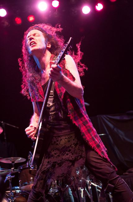 Marty Friedman live in Los Angeles Jan 2017.